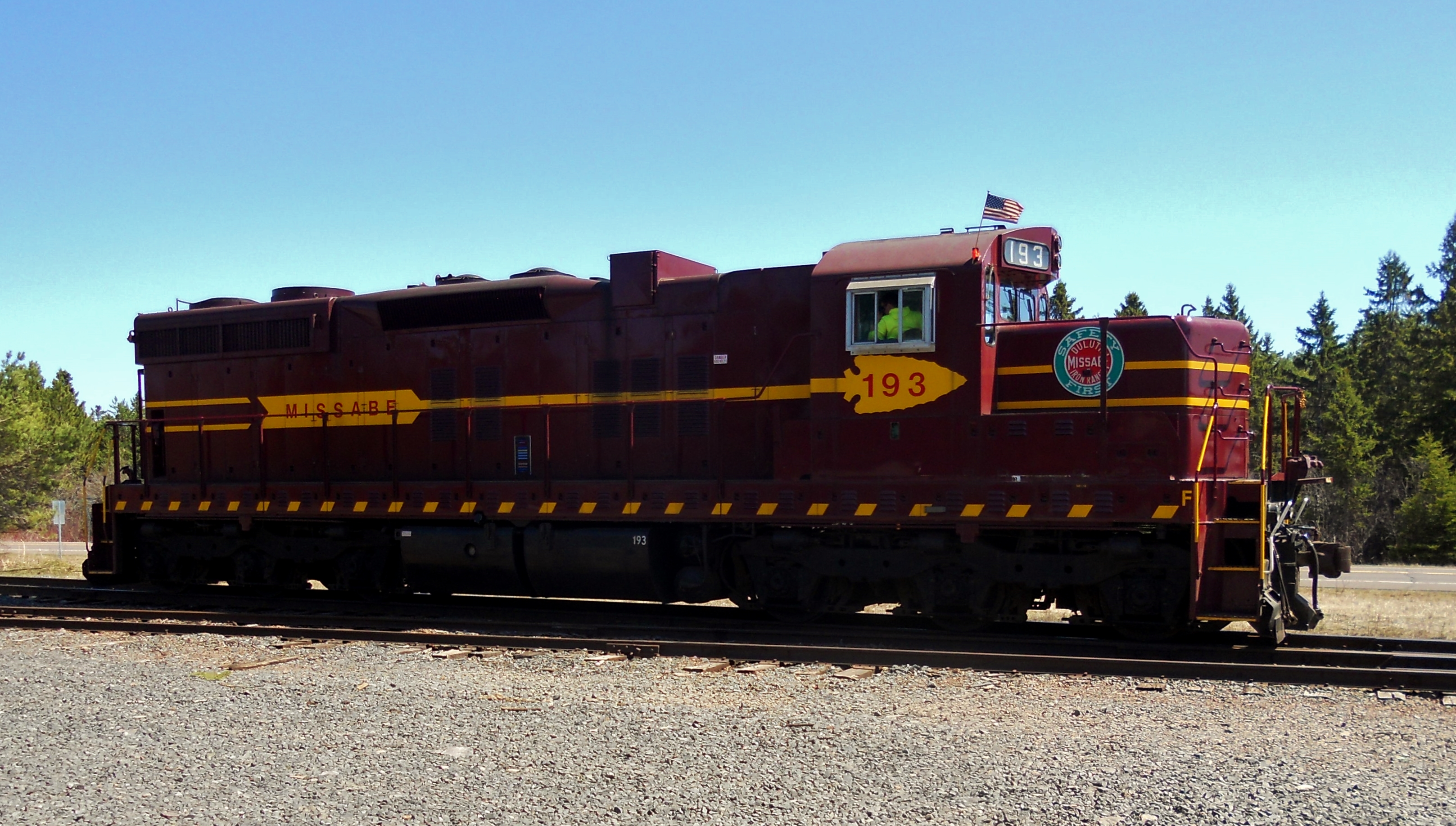 DMIR 193 in Palmers, MN